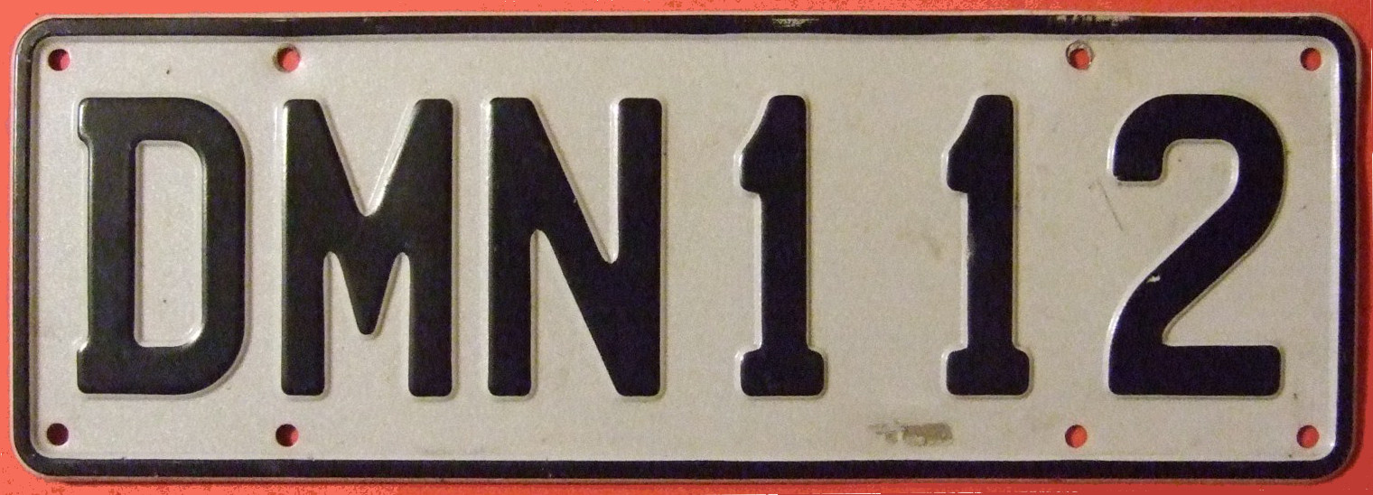 New Zealand license plate of the current style of the three letters, three numbers using the newer style short fonts. This plate was issued in 2006. At first the old style tall fonts used during the AA0000 series were continued at the beginning of this series but now a shorter different style font is used.